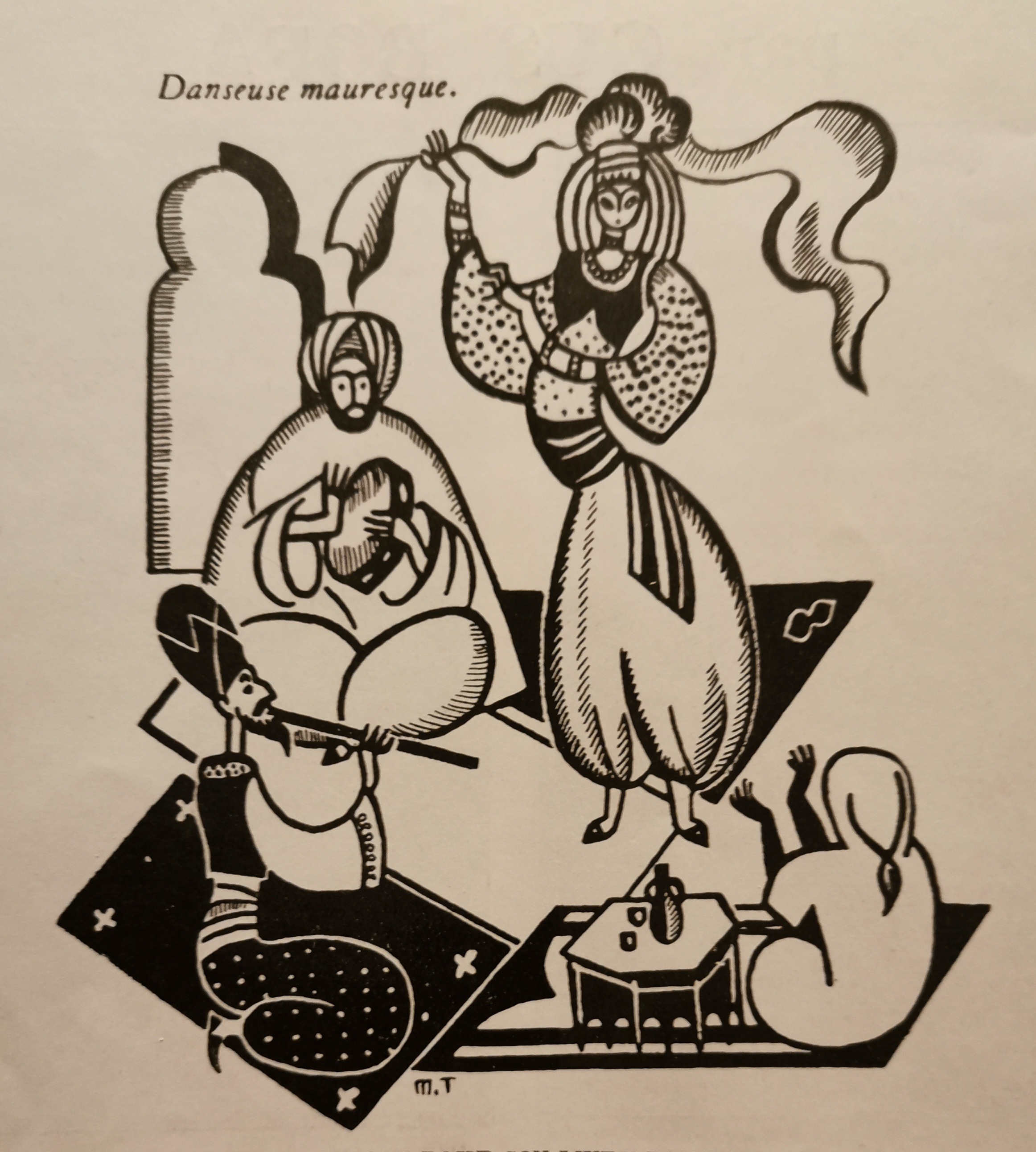 Danseuse mauresque, in: Le Tour du monde en un jour à l'Exposition coloniale, book published in Paris by Editions du Palmier nain.